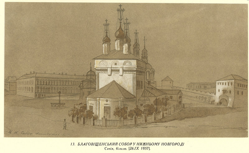 Painting of Taras Shevchenko